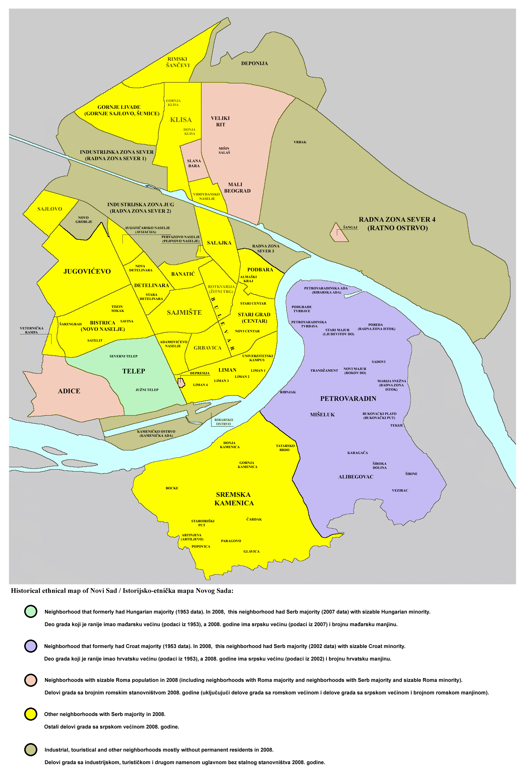 Historical ethnical map of Novi Sad (1953-2008).